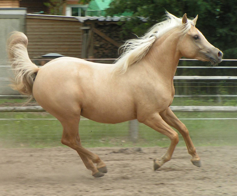 Quarab mare palomino